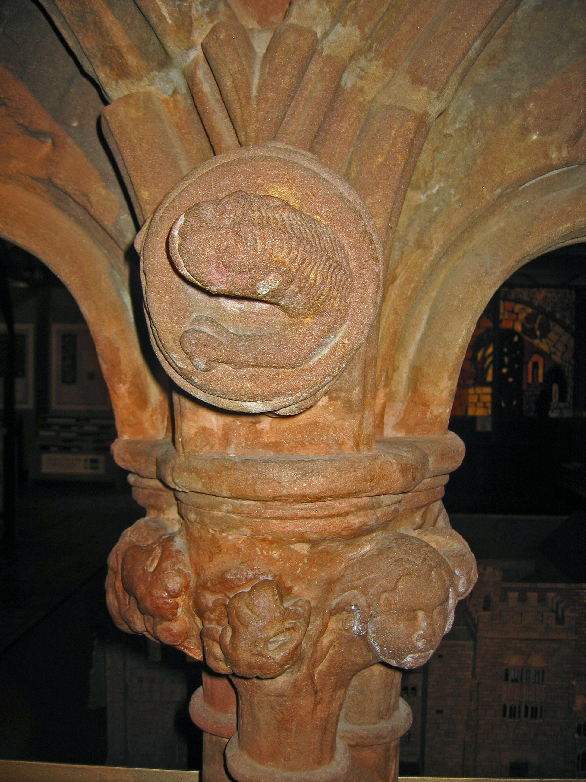 Part of reconstituted arcade in Norton Priory Museum, near Runcorn, Cheshire, England